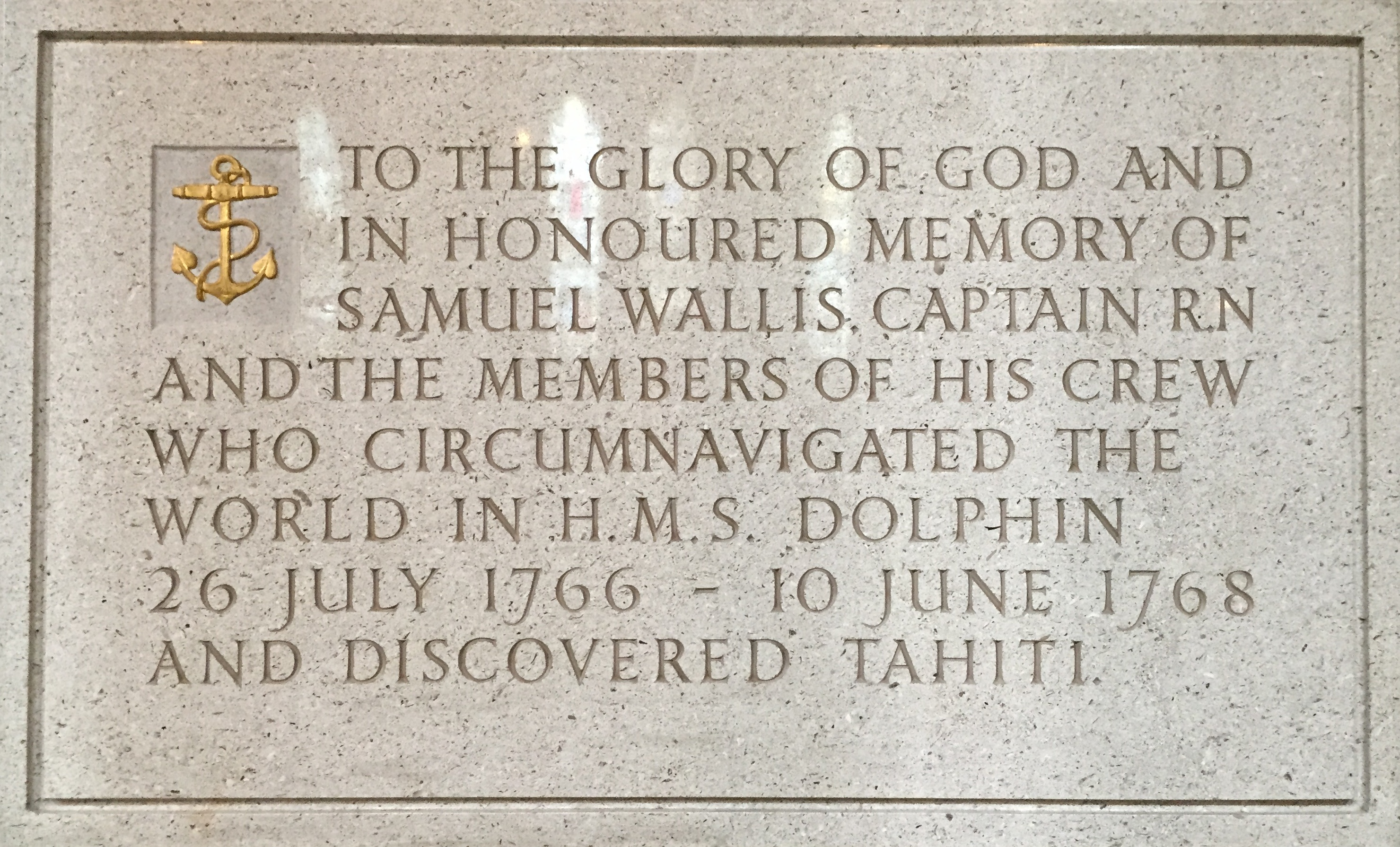 Samuel Wallis, Captain R.N., and the members of his crew who circumnavigated the world in H.M.S. Dolphin 26 July 1766 - 10 June 1768 and discovered Tahiti